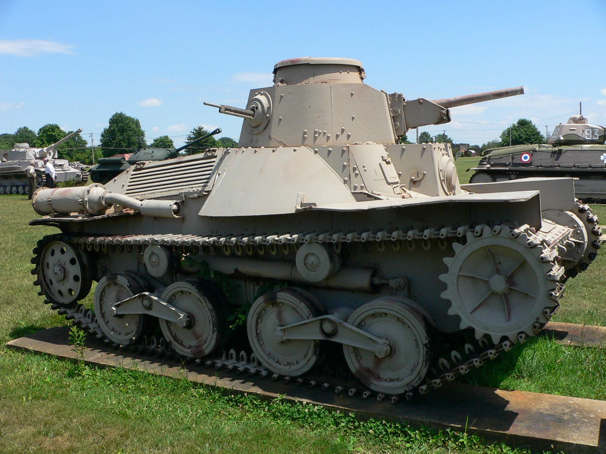 Picture taken by myself, Mark Pellegrini, at the United States Army Ordnance Museum (Aberdeen Proving Ground, MD) on June 12, 2007.